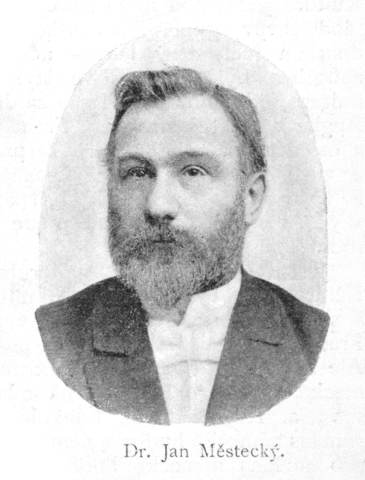 Portrait of Jan Městecký (1845-1912), Czech teacher and politician. He was also a board member of Živnostenská banka in Prague.